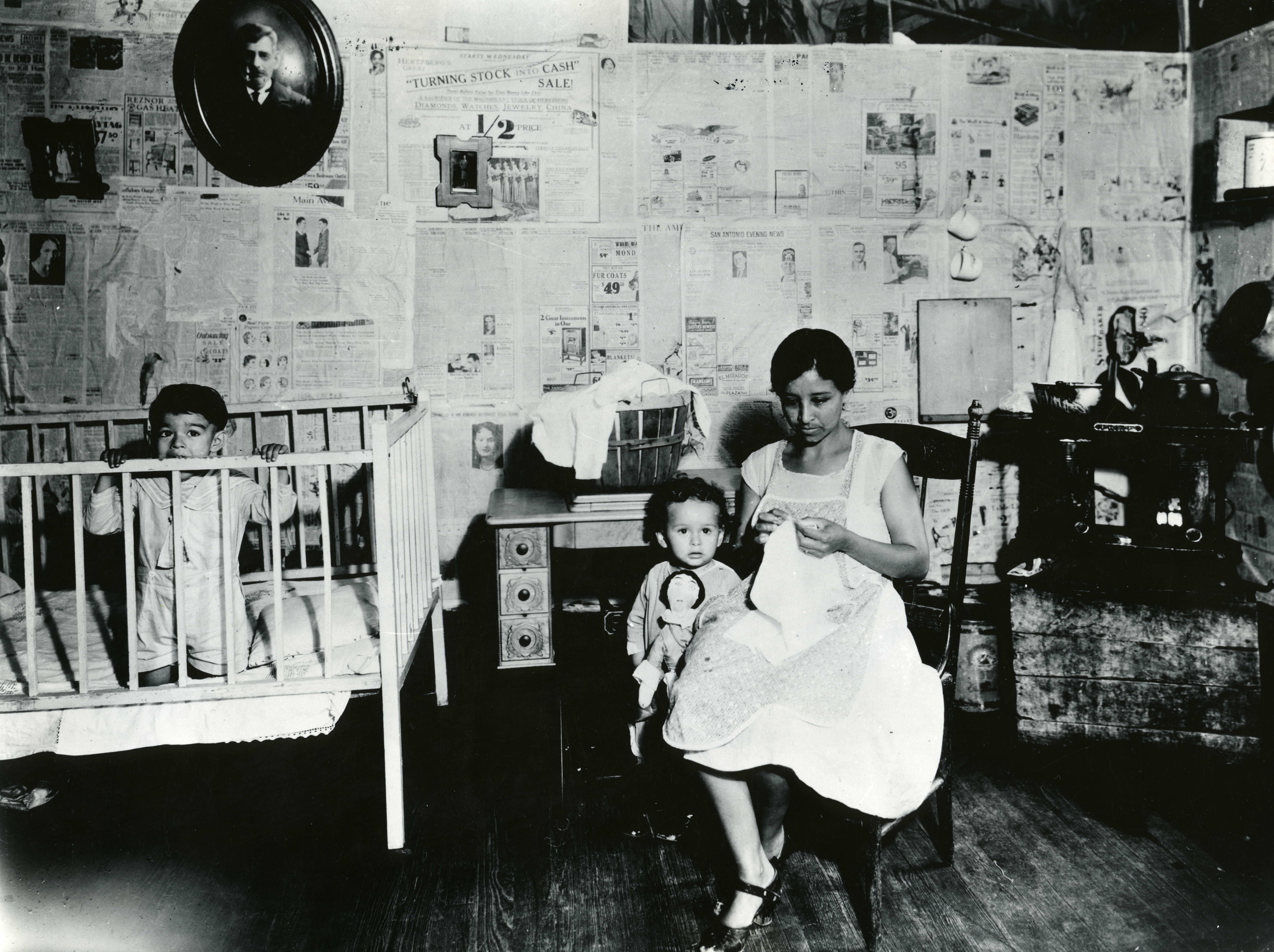 1932 domestic scene of a seated woman and two young children, one kneeling in a crib. In the background are walls covered (or constructed?) with pages from a newspaper.